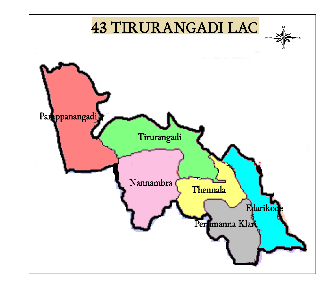 This is the map of Tirurangadi Niyamasabha constituency